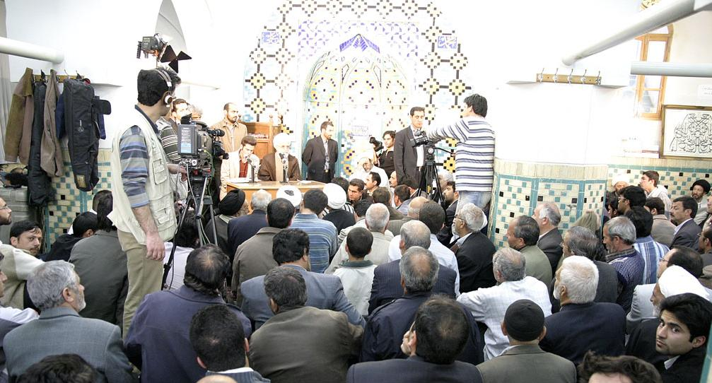 Mehdi Karrubi lecturing in Zanjan